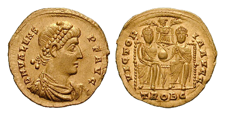 Valens. 364-378. AV Solidus (4.44 gm). Struck 376-377 AD. Trier mint. :D N VALENS P F AVG, pearl-diademed, draped and cuirassed bust right :VICTOR-IA AVGG, Valens and Valentinian seated facing, together holding globe, Victory standing behind with wings spread; (palm), TROBC in exergue. RIC IX 39b; Depeyrot 45/1. EF. Schmidt Collection.